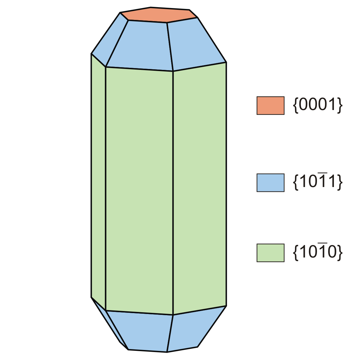 Mallestigite crystal, long prismatic, with {0001}